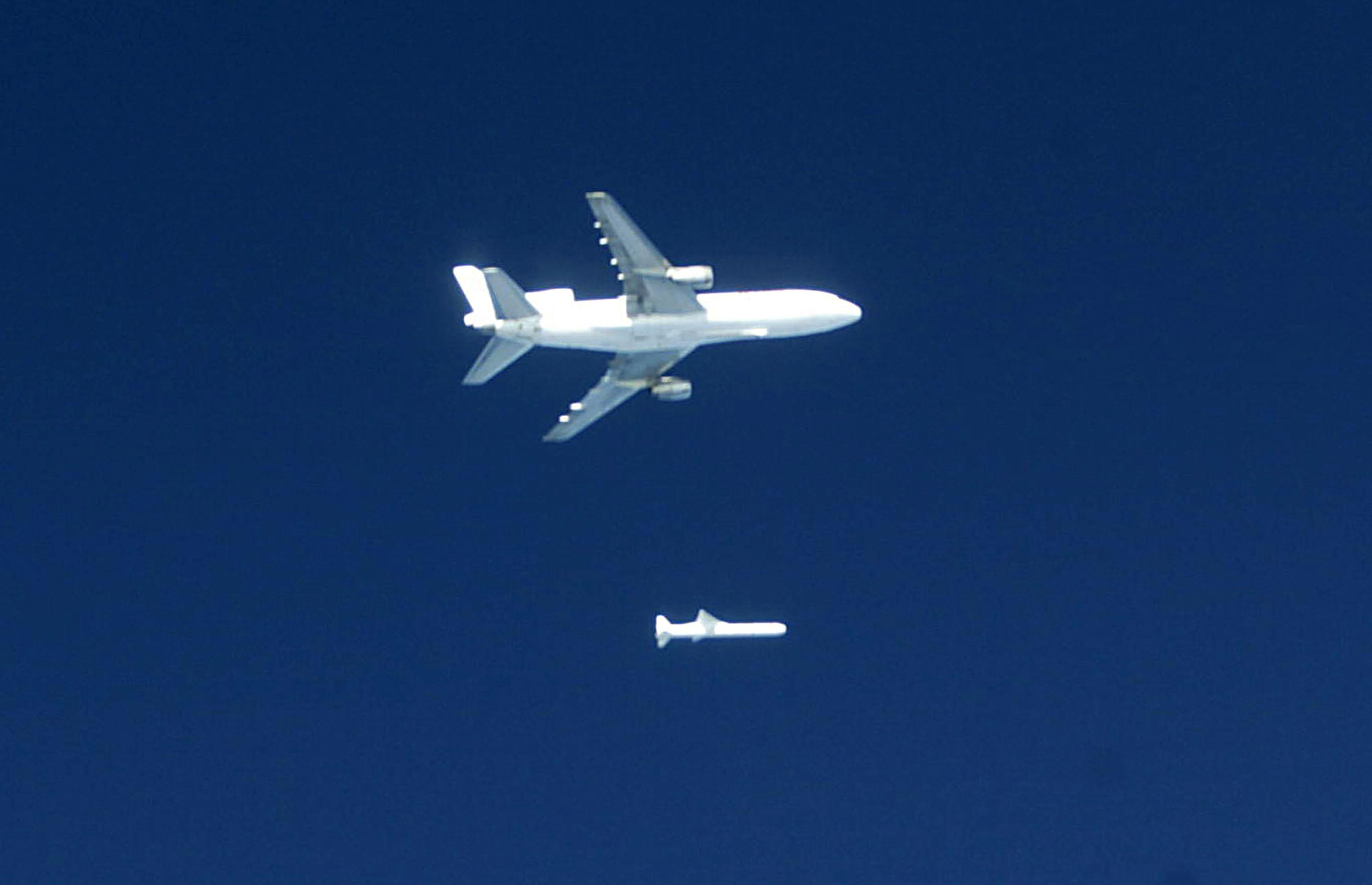 KENNDY SPACE CENTER, FLA. -- The Pegasus XL rocket is dropped from the L-1011 aircraft at 3:14 p.m. EST, propelling NASA's Solar Radiation and Climate Experiment (SORCE) toward its orbit. Separation of the spacecraft from the rocket occurred 10 minutes and 46 seconds after launch at about 3:24 p.m. Initial contact with the satellite was made seven seconds after separation via a NASA communications satellite network. Over the next few days, the mission team will insure that the spacecraft is functioning properly. The SORCE science instruments will then be turned on and their health verified. Approximately 21 days after launch, if all is going well, the instruments will start initial science data collection and calibration will begin. The spacecraft will study the Sun's influence on our Earth and will measure from space how the Sun affects the Earth's ozone layer, atmospheric circulation, clouds, and oceans. This mission is a joint partnership between NASA and the University of Colorado's Laboratory for Atmospheric and Space Physics in Boulder, Colorado.